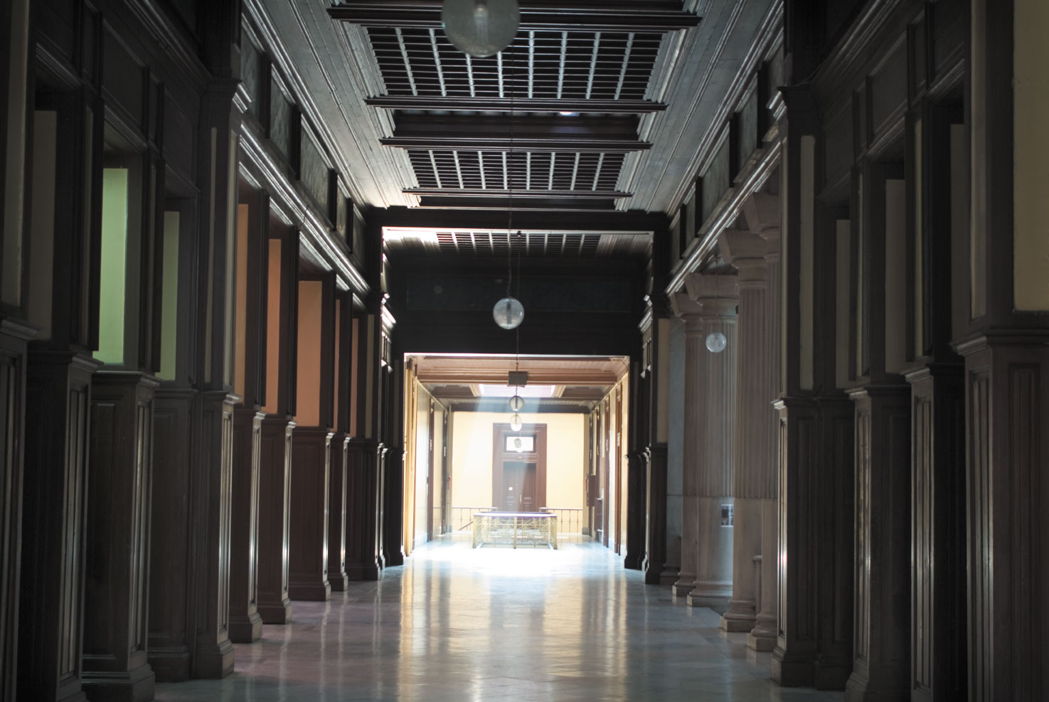 by Tansel Atasagun (IEL 87)